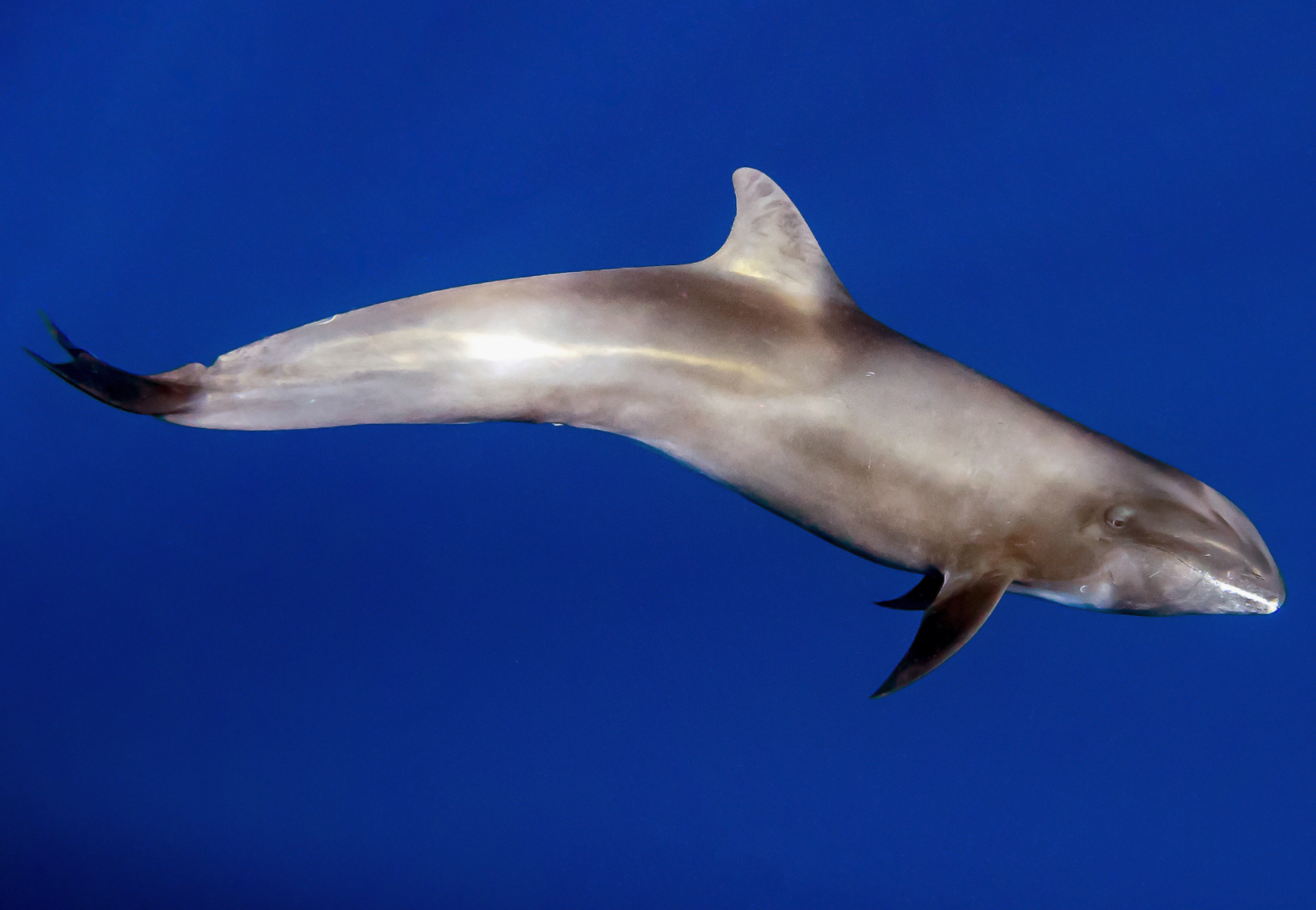 A Melon-headed dolphin (Peponocephala electra), observed in Mayotte.